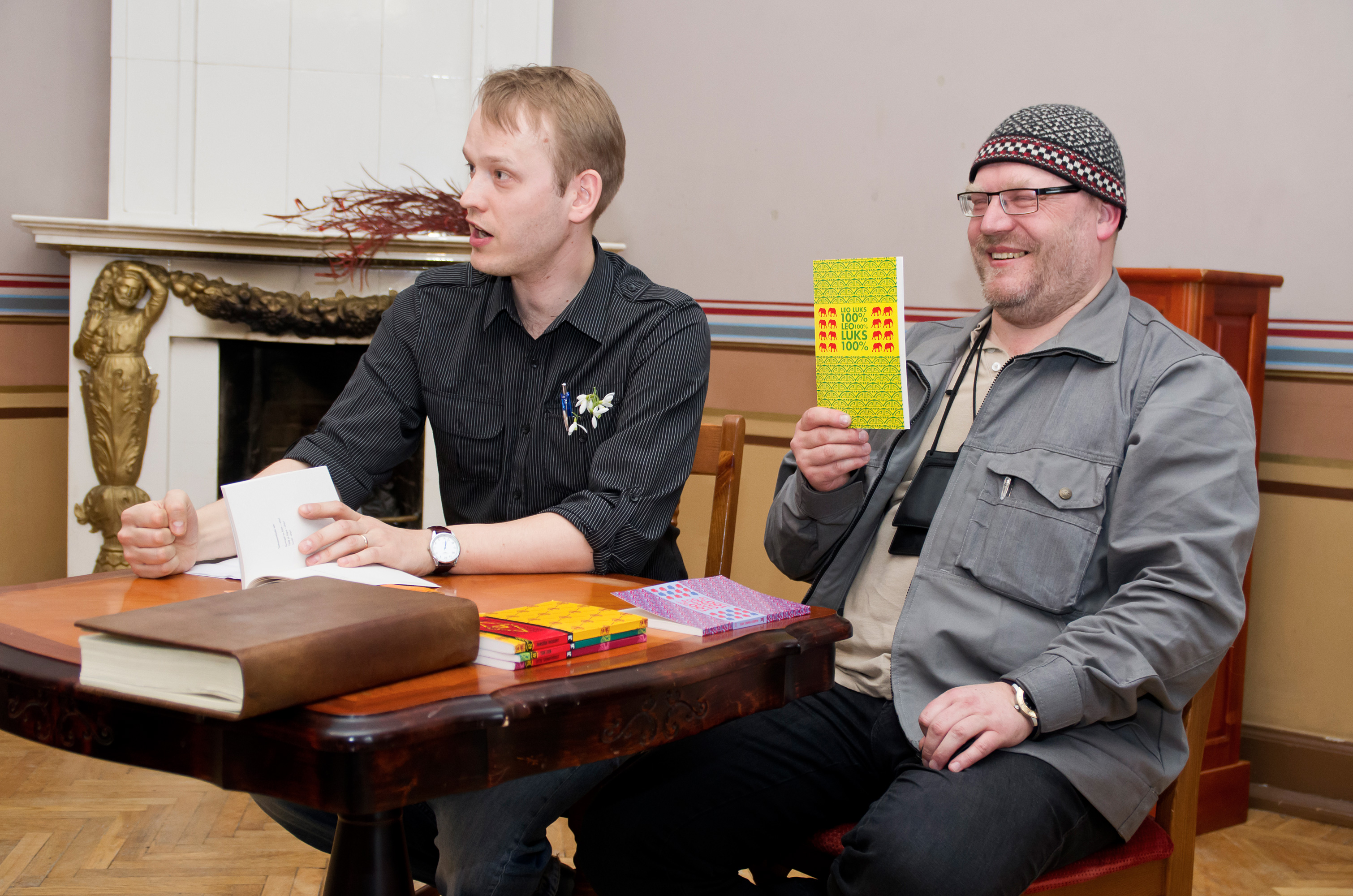 Leo Luks ja Sven Kivisildnik Tartu kirjanike majas